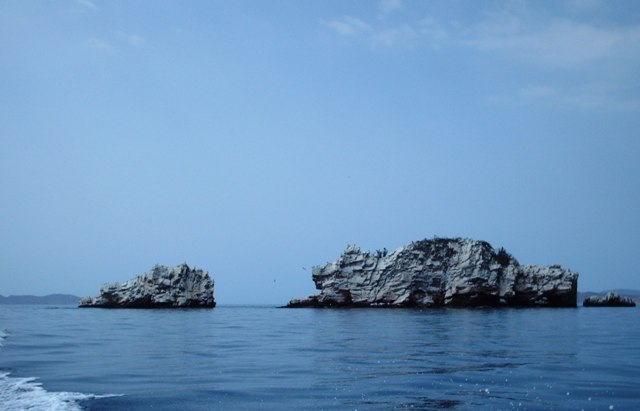 El Gato y El Ratón Rocks (Arapo Islands) Mochima National Park. Sucre State, Venezuela.